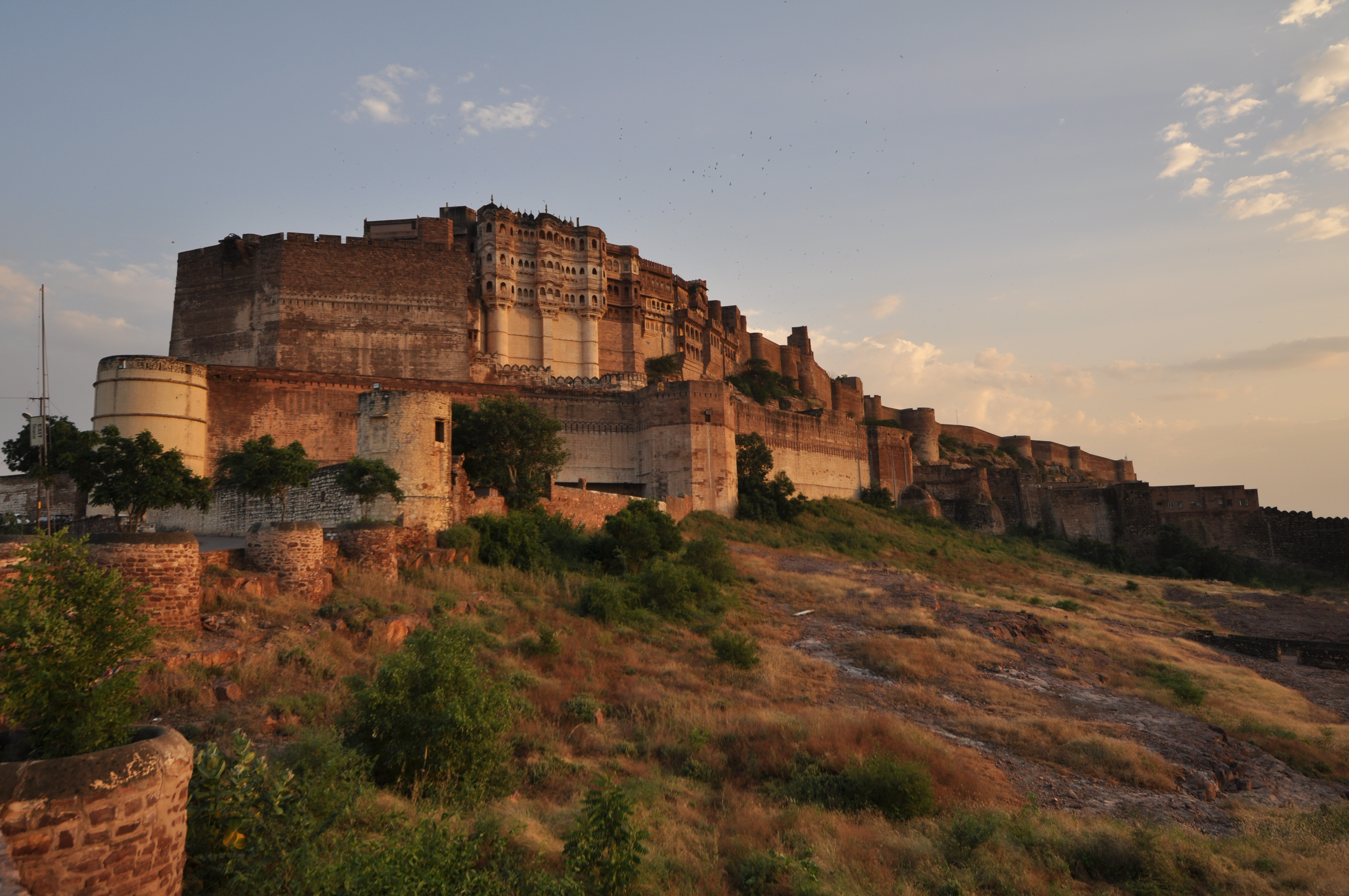 Mehrangarh Fort in Jodhpur, Rajasthan.